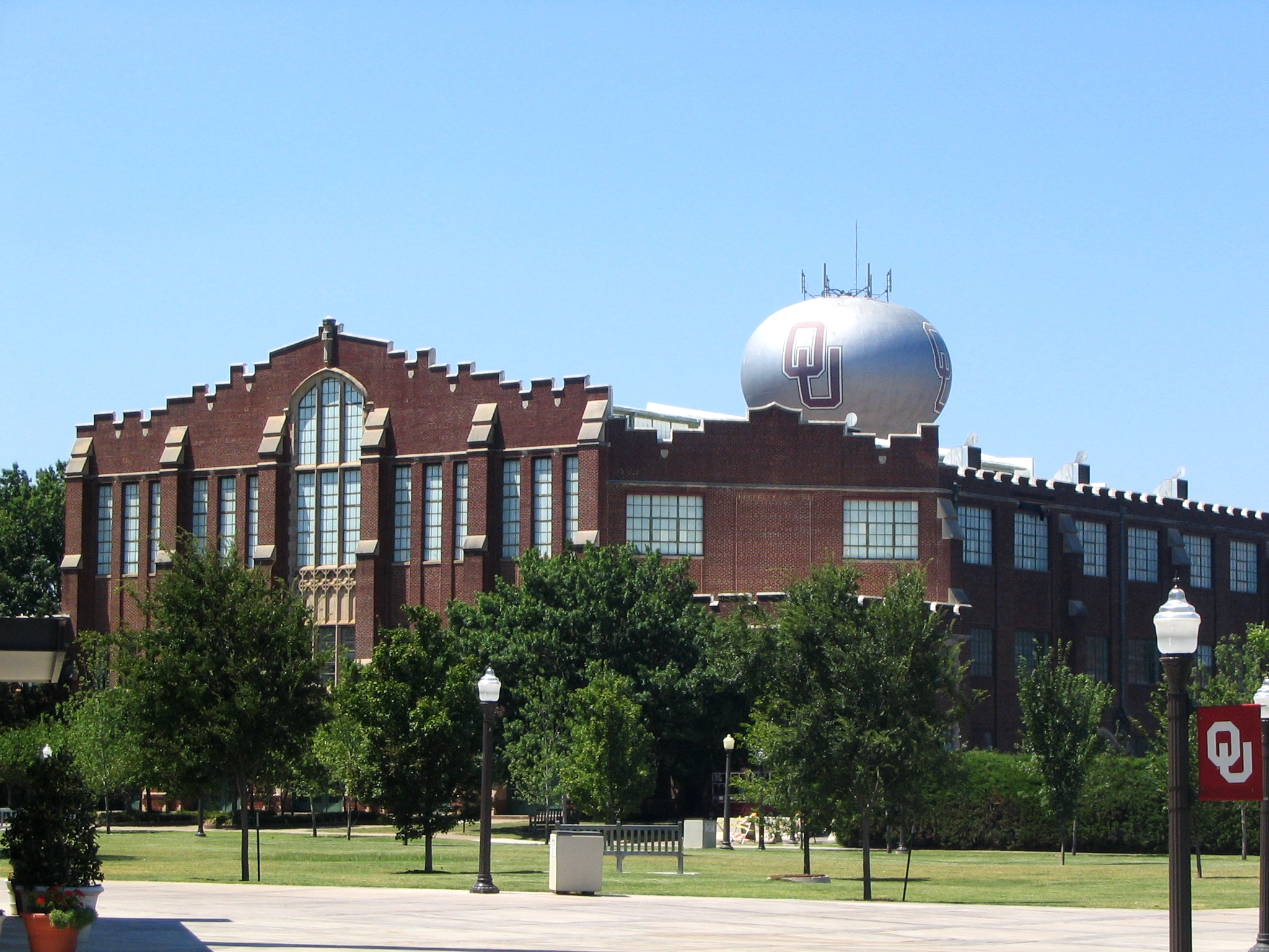 A view of McCasland Field House in Norman, OK.